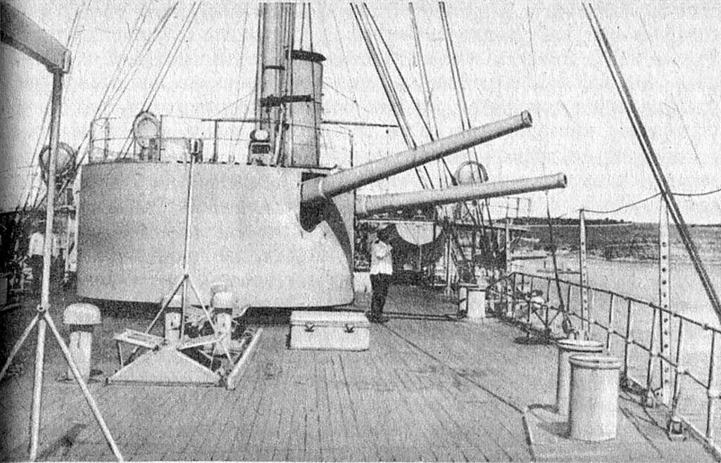 Imperial Russian cruiser Kagul.